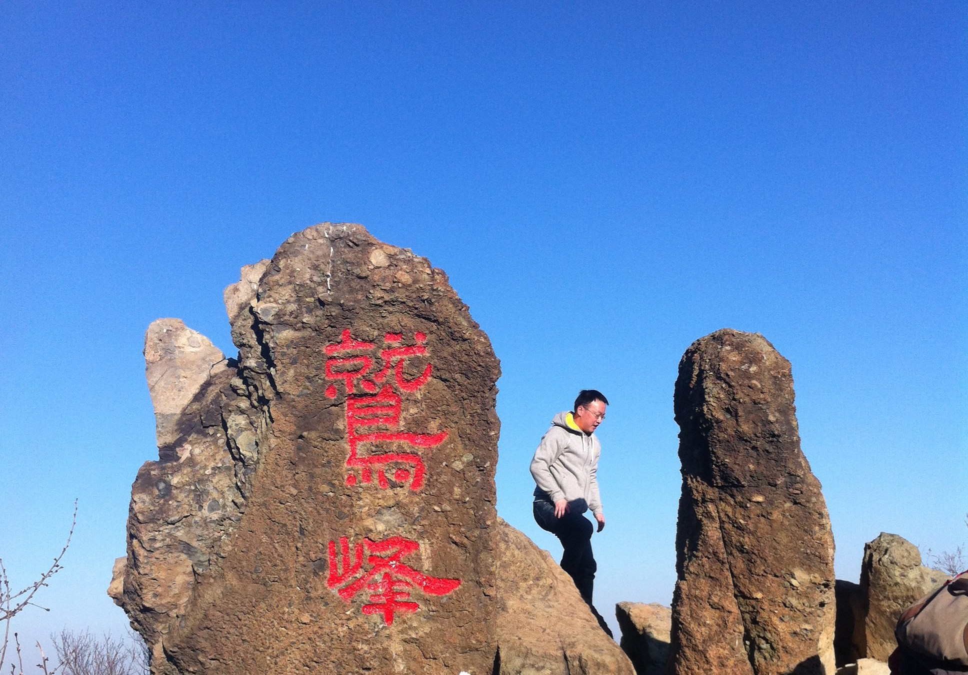 The peak of Jiufeng, at the elevation of 465m.